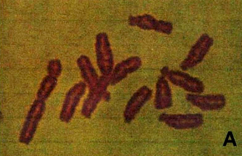 Karyotype of Broad bean (Vicia faba). 2n=12.